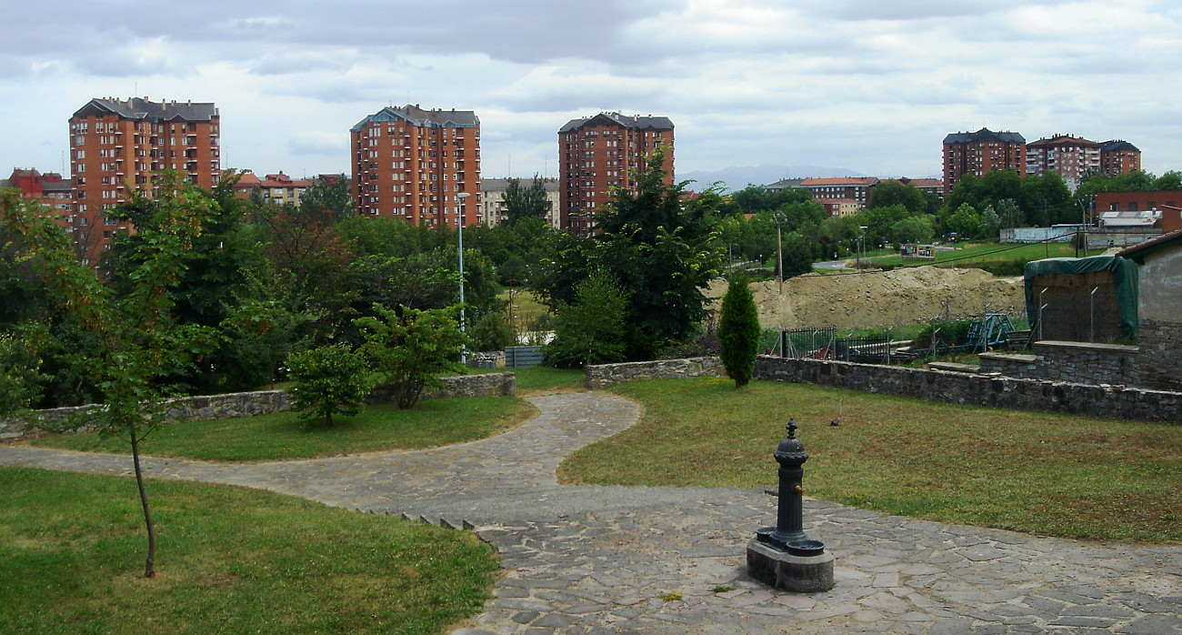 Adurtza neighbourhood (Vitoria-Gasteiz)